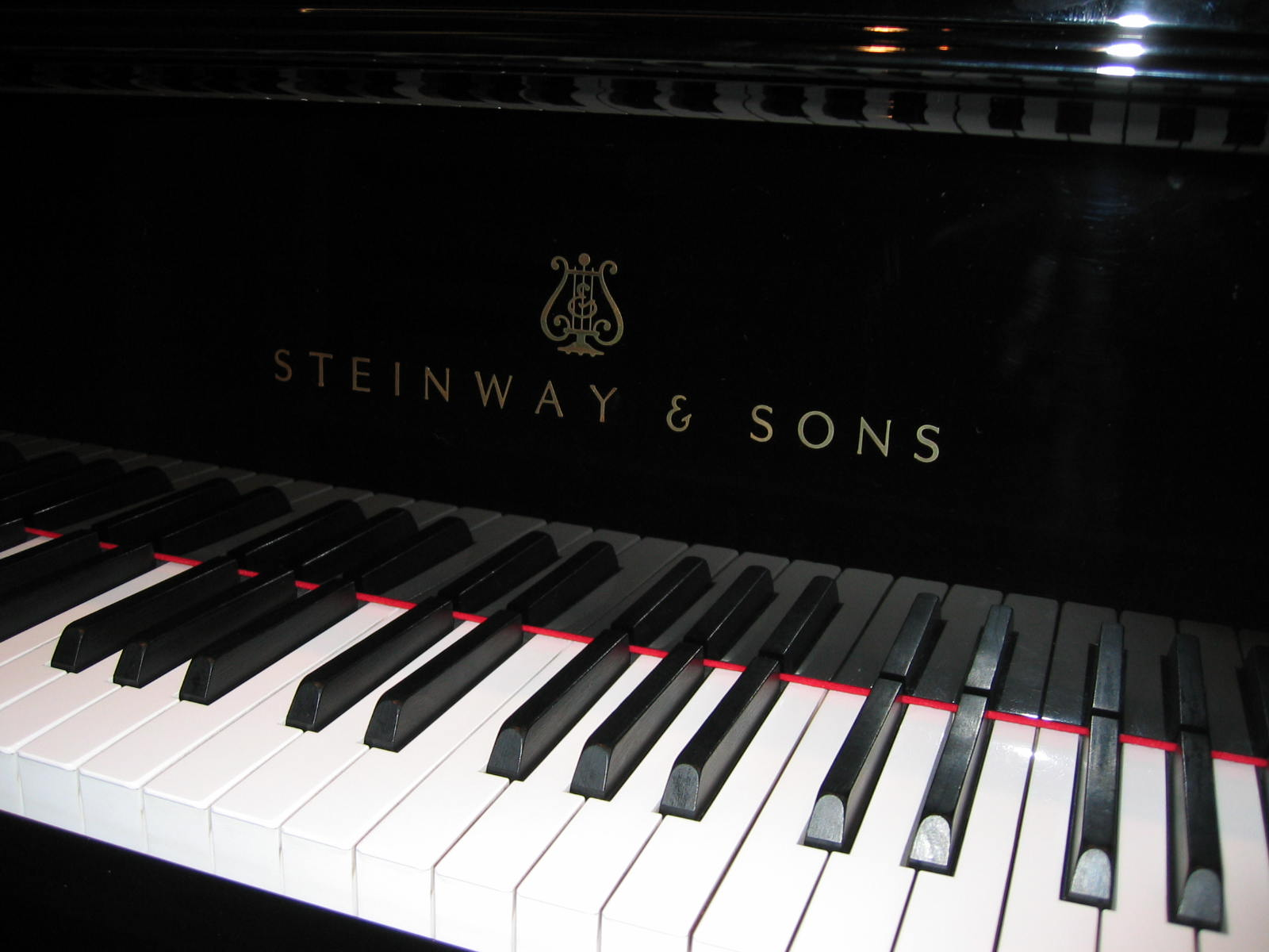 Piano keys